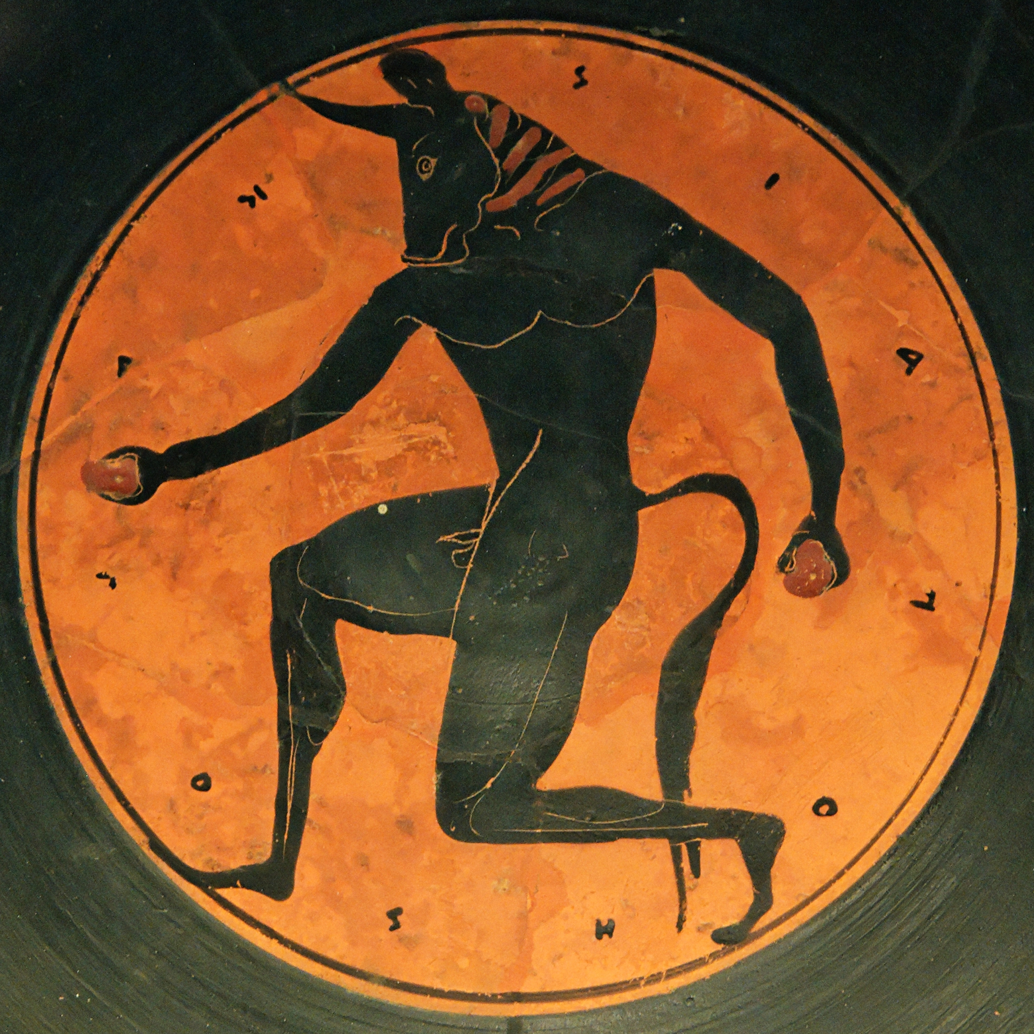 The Minotaur, tondo of an Attic bilingual kylix.